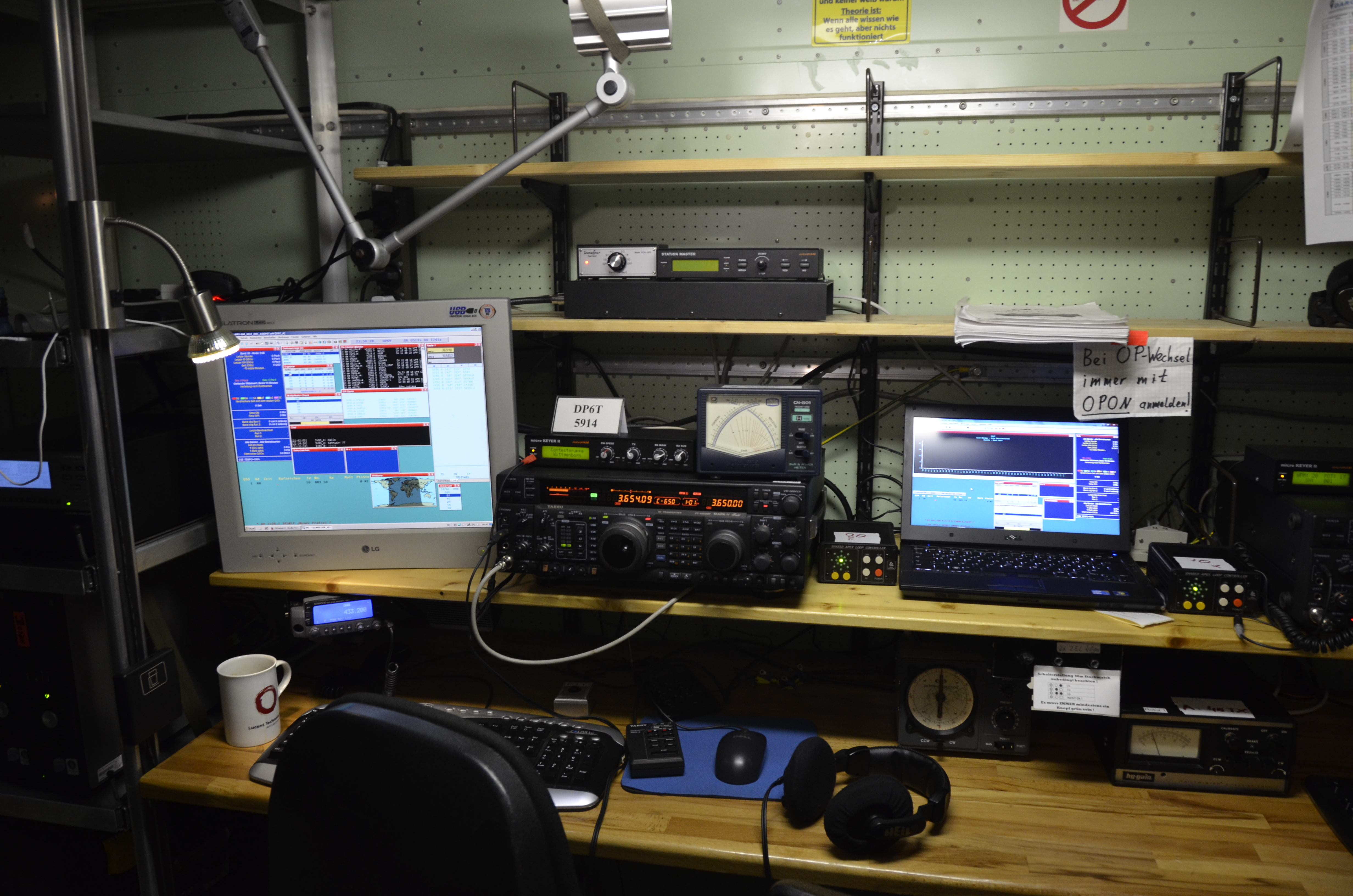 German amateur radio contest station.